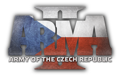 ArmA II ACR DLC (2010) logo.